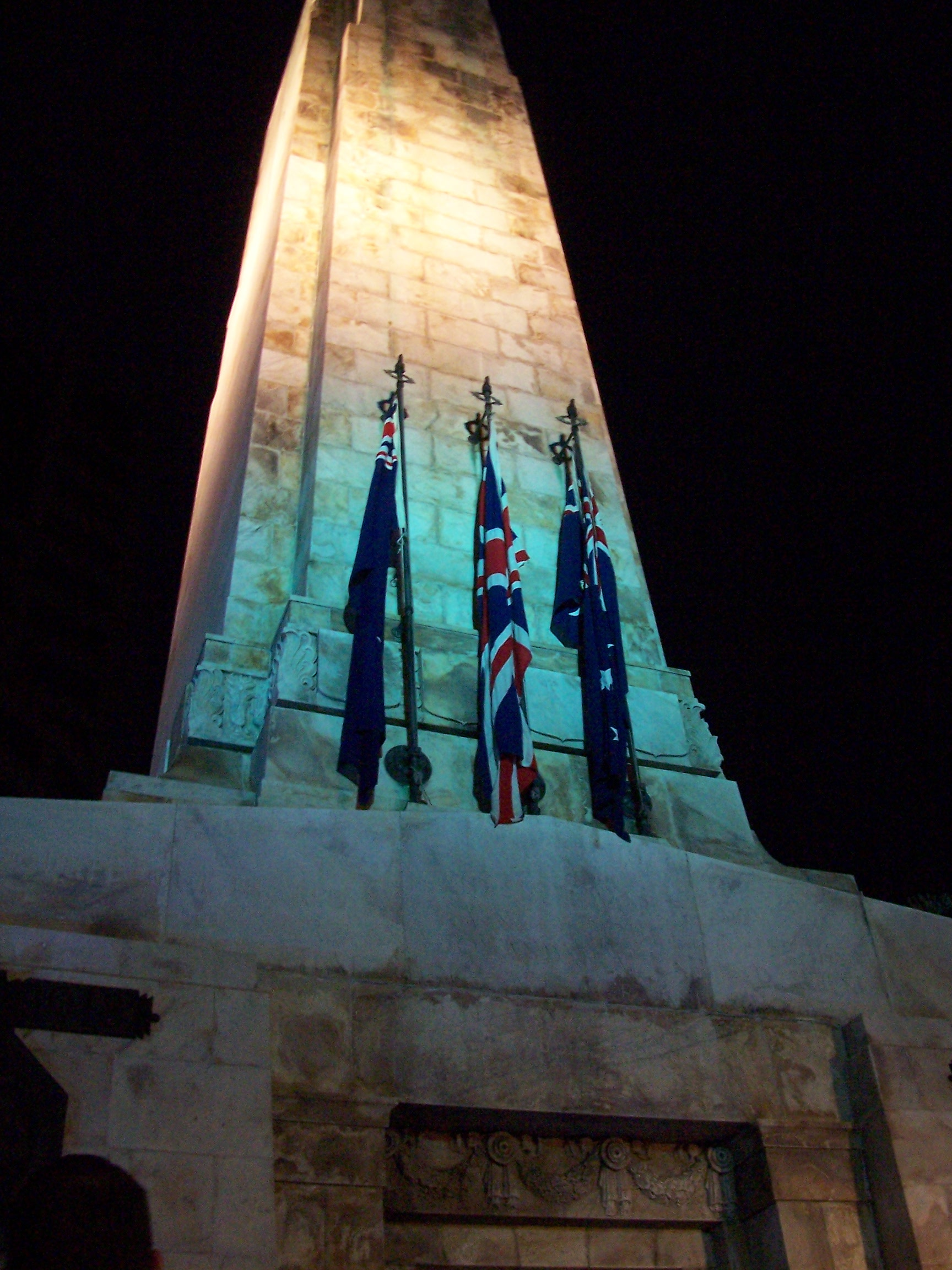 The flags on the Wellington cenotaph - L-R - New Zealand, United Kingdom and Australia. Photo taken by myself. Wellington Dawn Service 2007. The Cenotaph is has a listing with the New Zealand Historic Places Trust, Register number: 215.